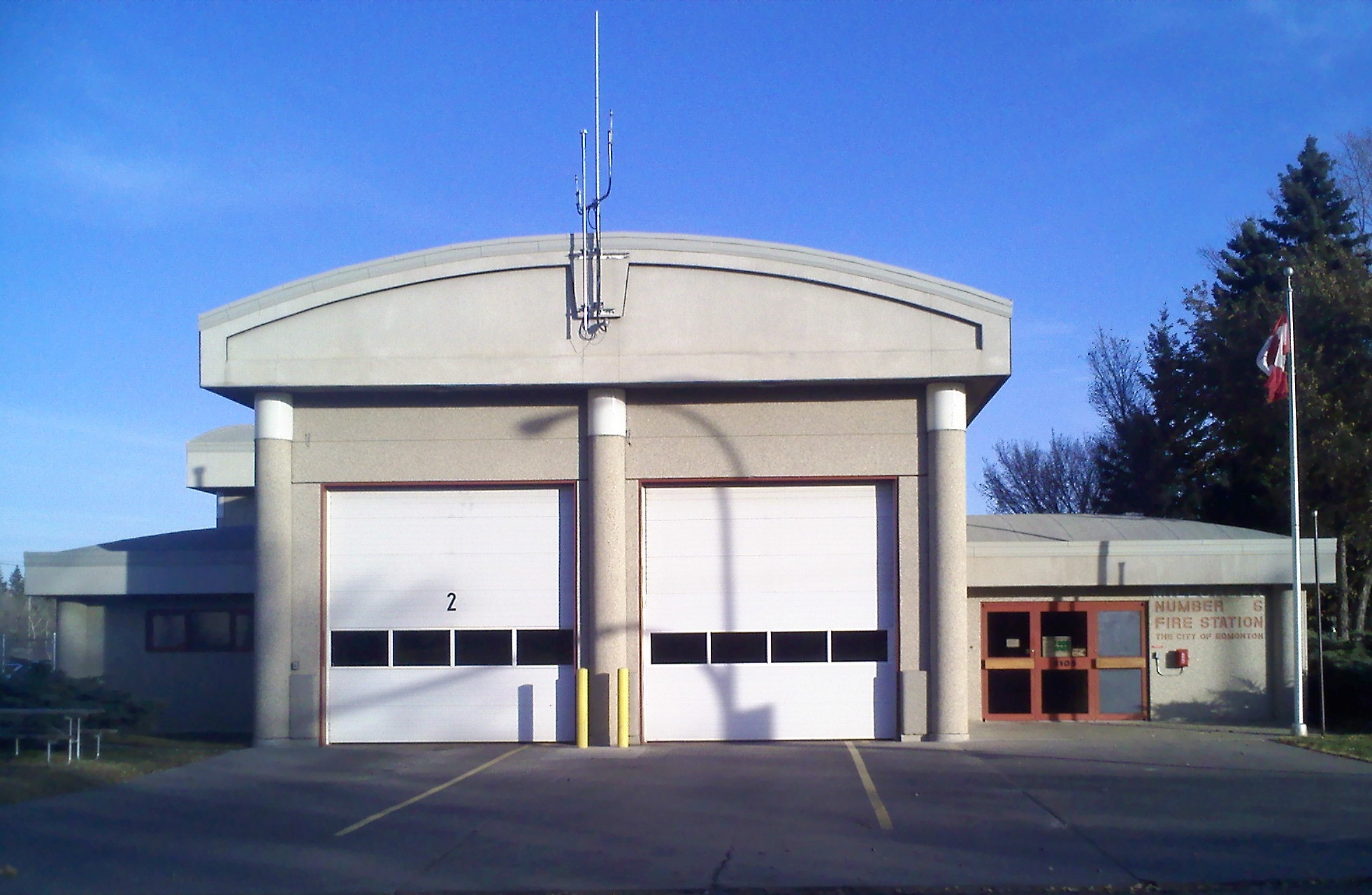 West face of Edmonton Fire Station Number Six at 8105 96 Street, Edmonton.